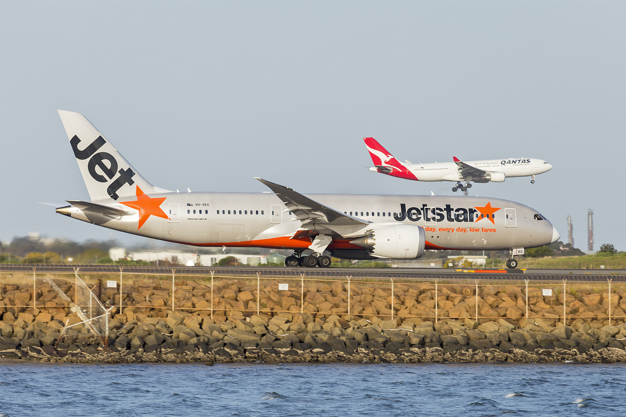 Jetstar Airways (VH-VKG) Boeing 787-8 Dreamliner at Sydney Airport.